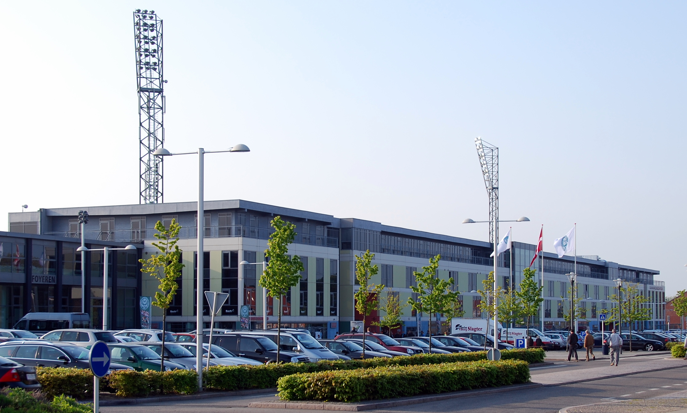 Viborg Stadion viewed from Tingvej.